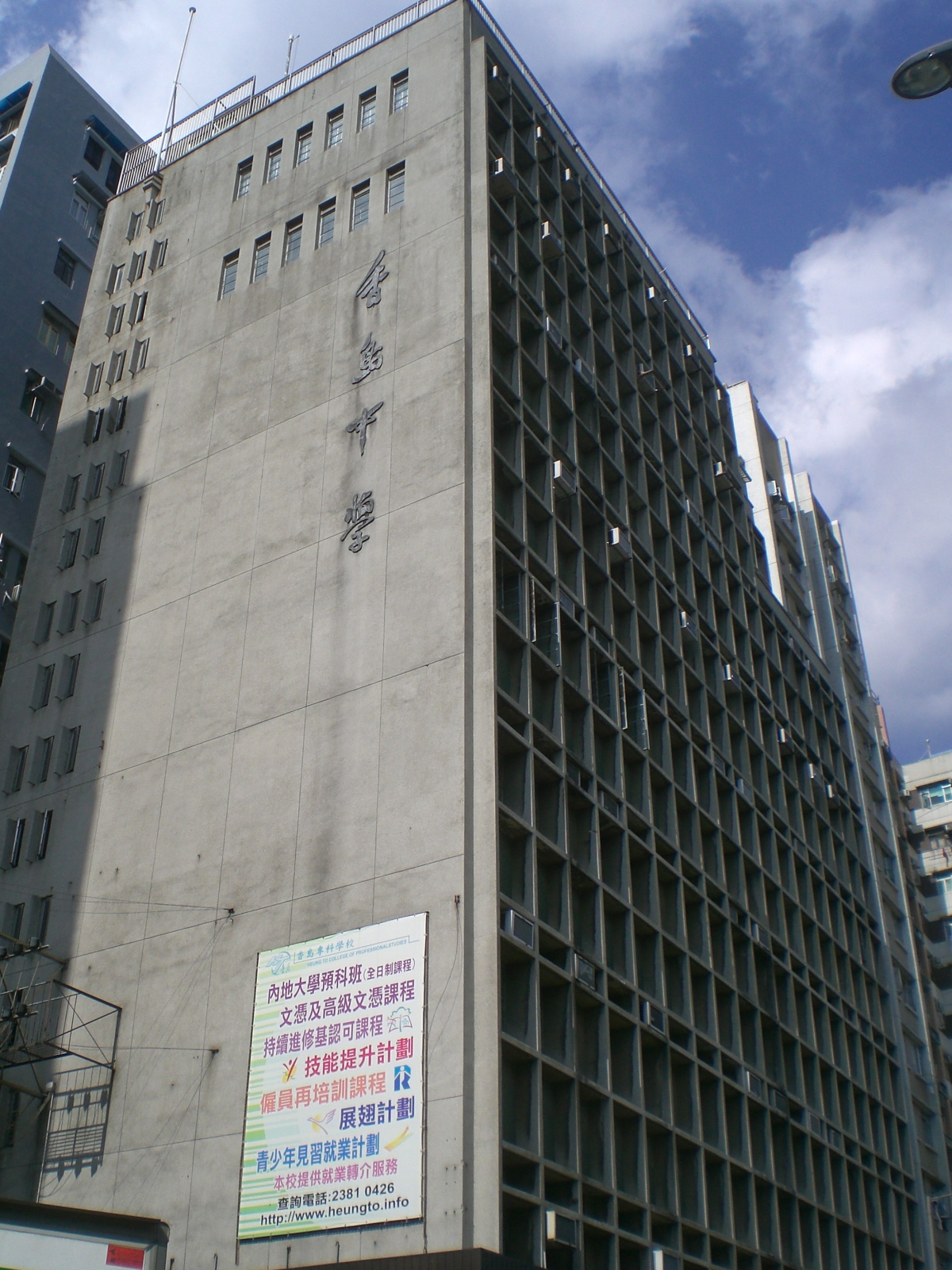 香島中學, 運動場道近洗衣街231號, Heung To Middle School, Sai Yee Street, Prince Edward, Kowloon, Hong Kong.